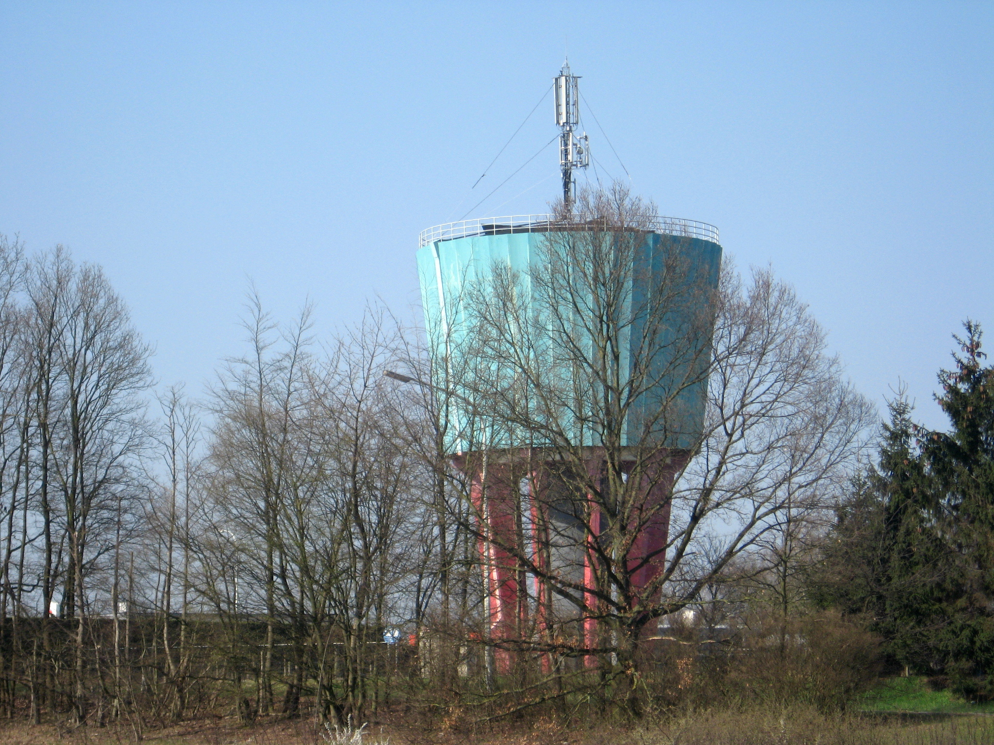 Water tower in Diepenbeek, Limburg, Belgium